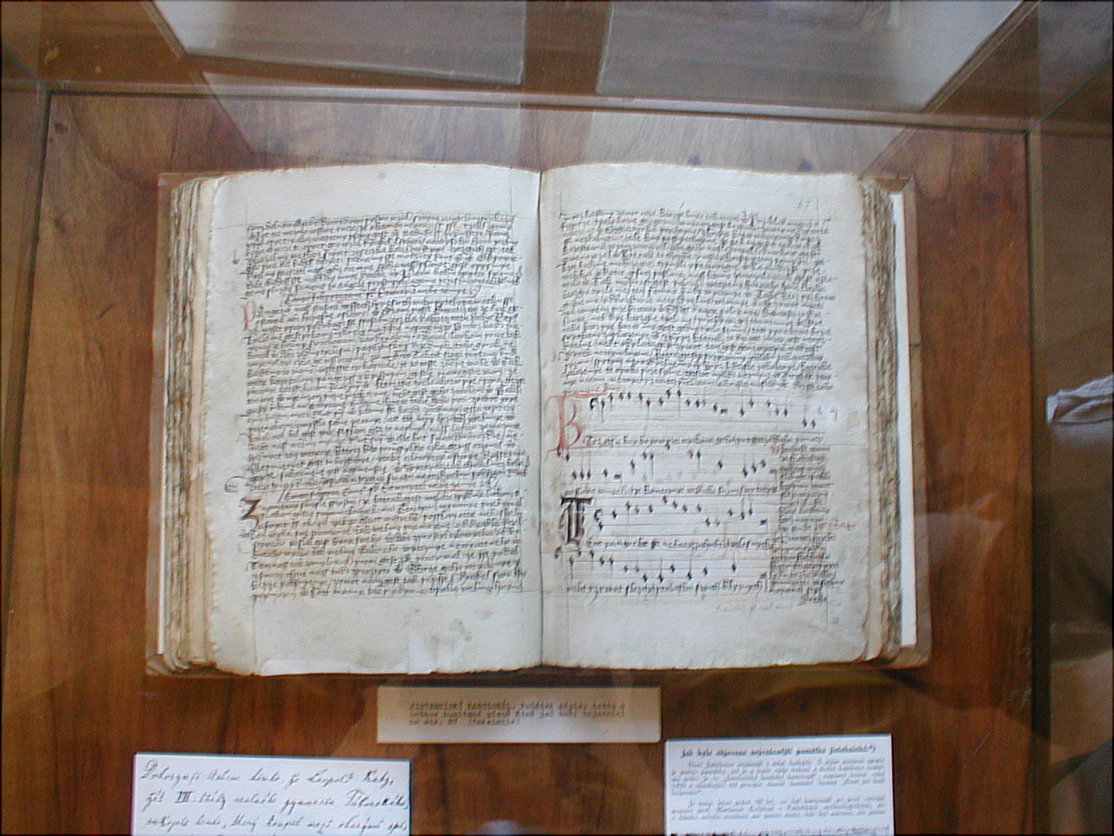 The hymn-book of Jistebnice.